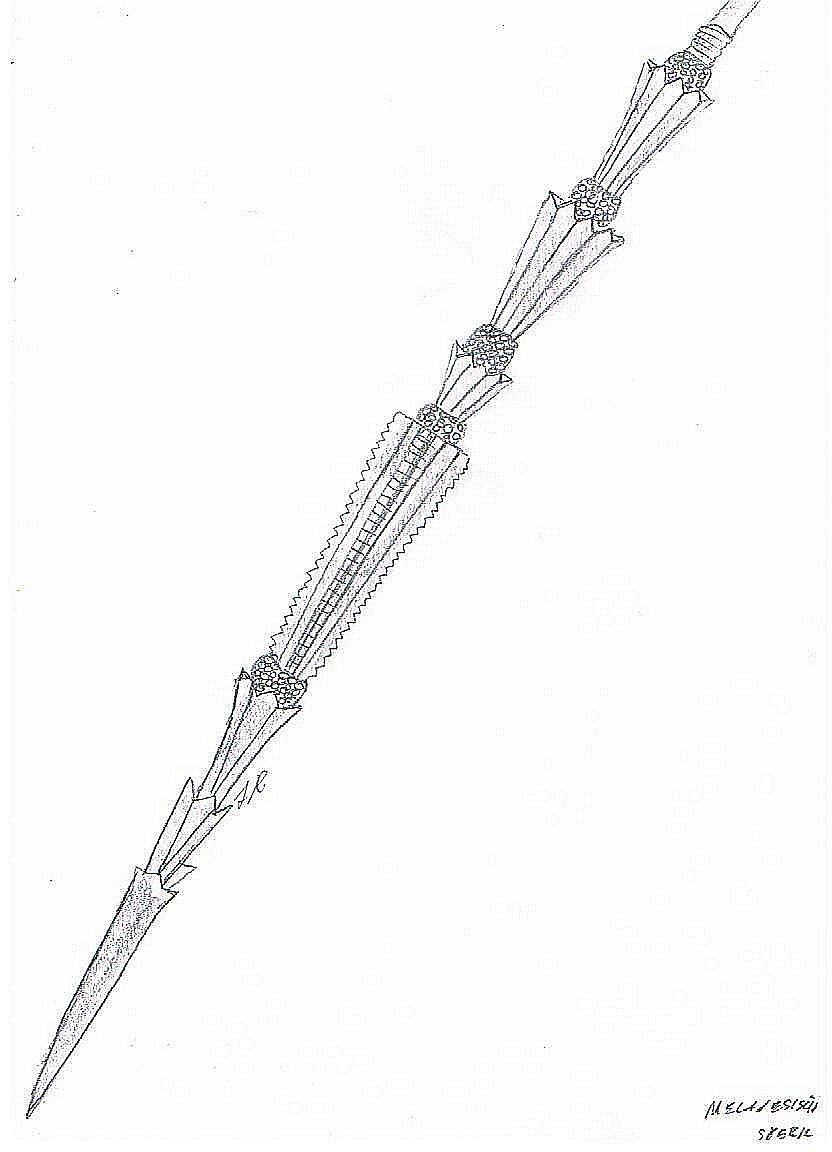 Melanesian spear